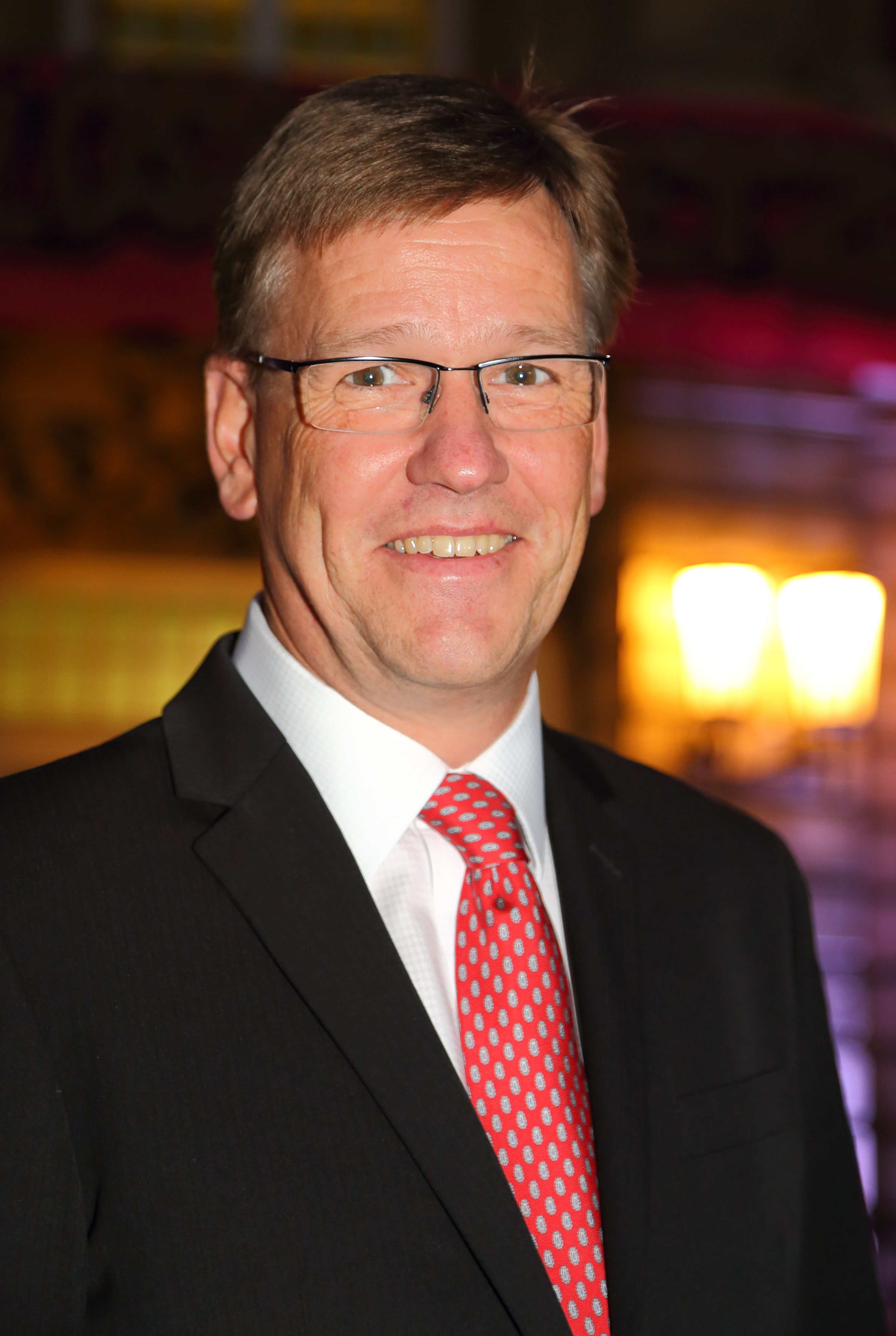 German physicist Professor Dr. Johannes Wessels. Since 2016 he serves as the Rector of the University of Münster (Westfälische Wilhelms-Universität Münster) in Münster, North Rhine-Westphalia, Germany.